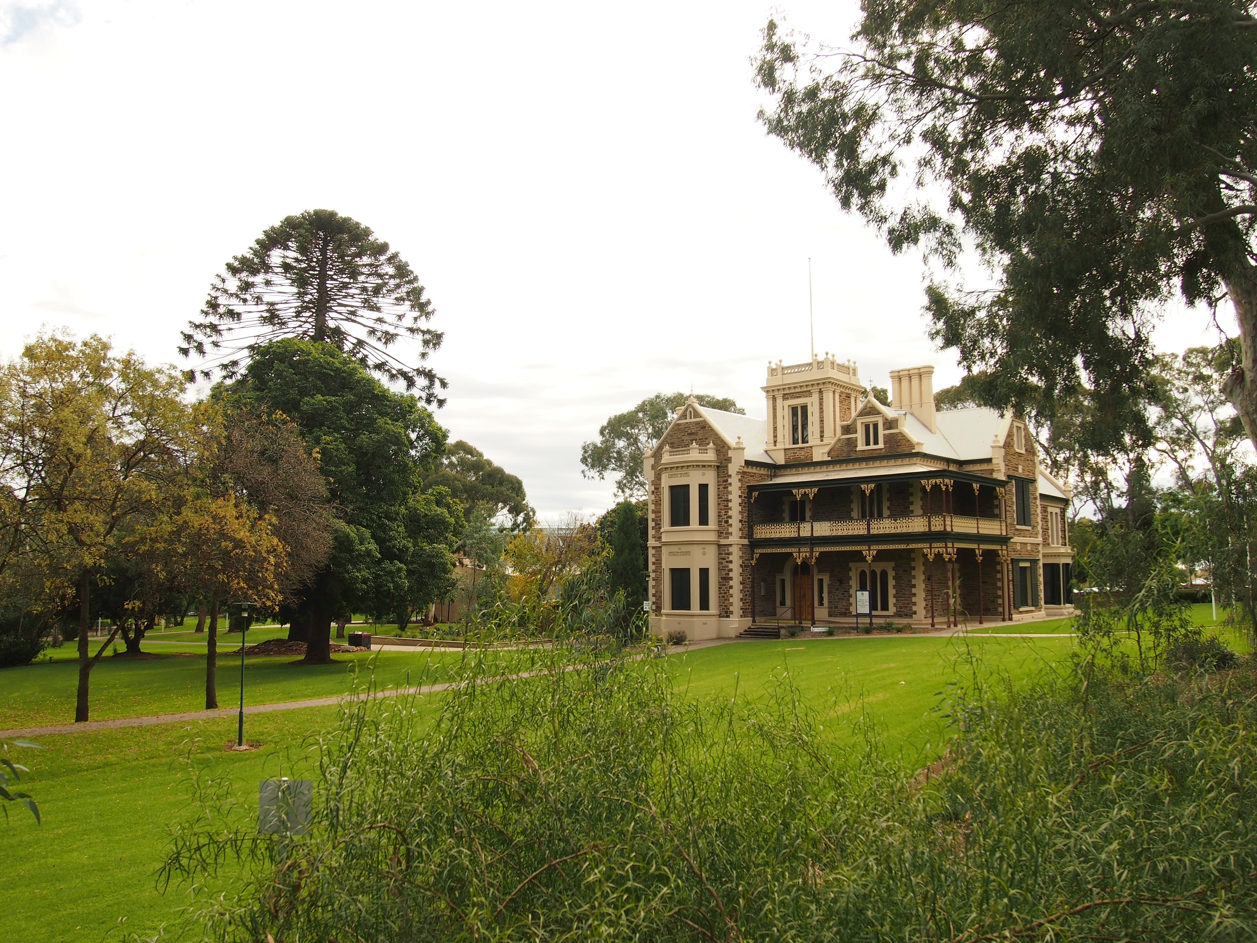 Murray House, Magill Campus, University of South Australia Original filename = P5192329.JPG